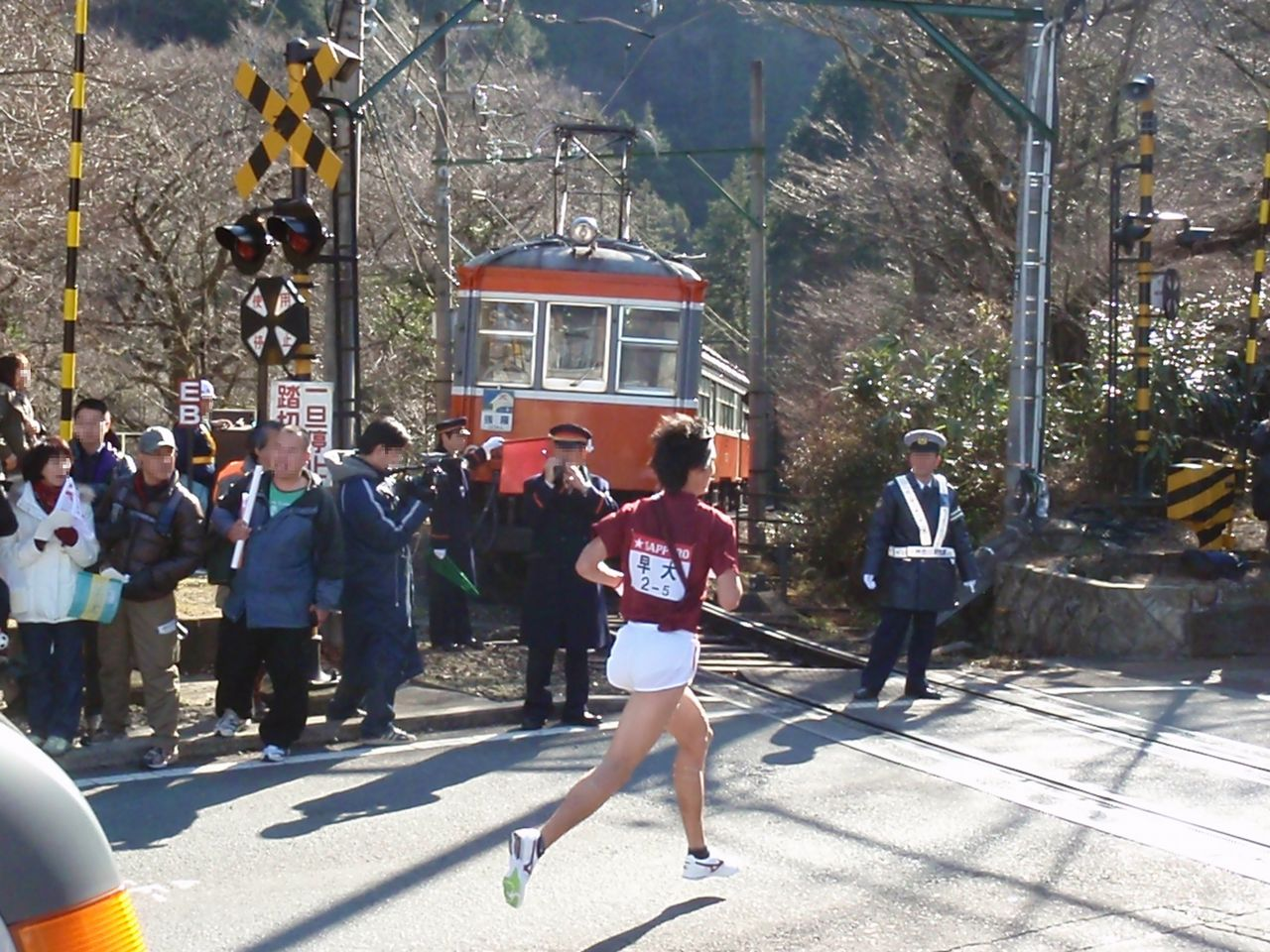 When the runner of Hakone-ekiden Relay Race passes, Hakone Tozan Railway stops the train in this side of the railroad crossing.